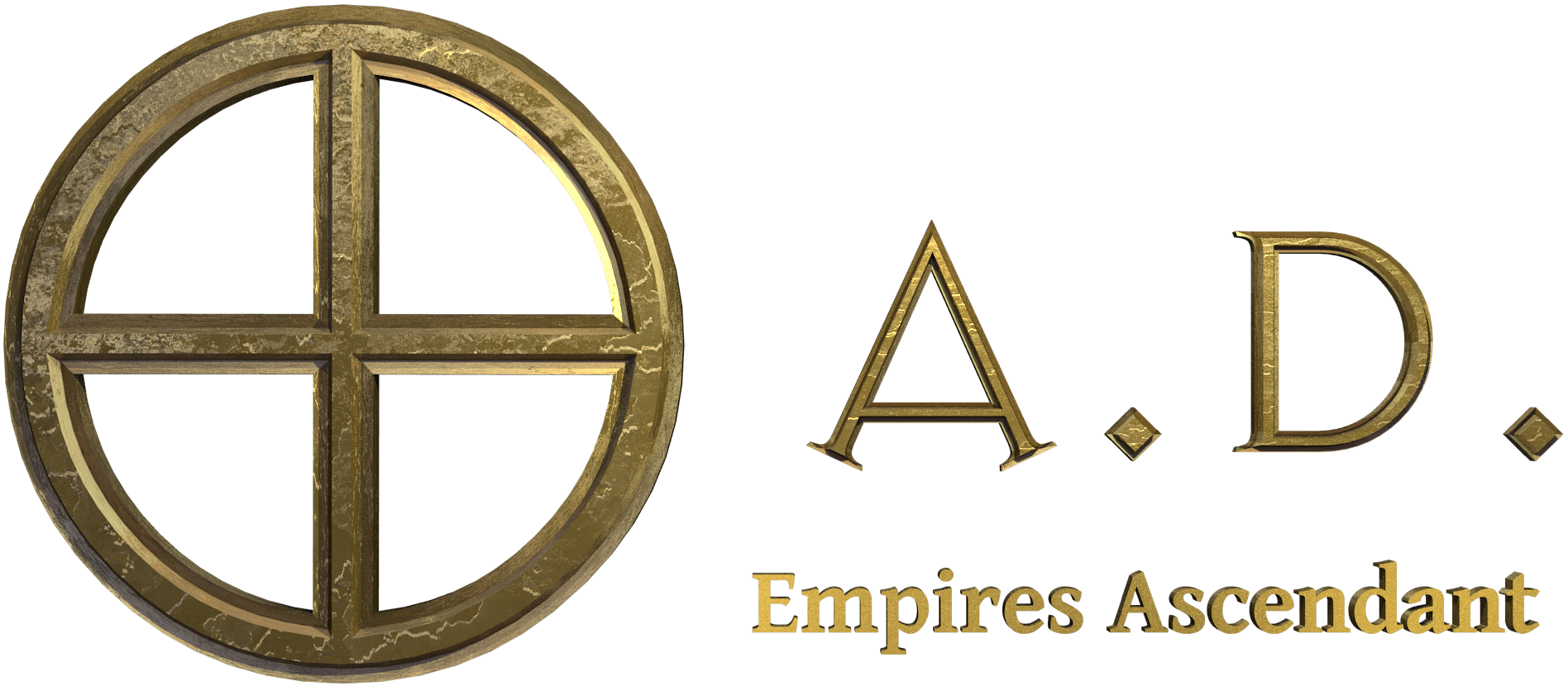 The logo of the real-time strategy open source game 0 A.D., published by Wildfire Games.